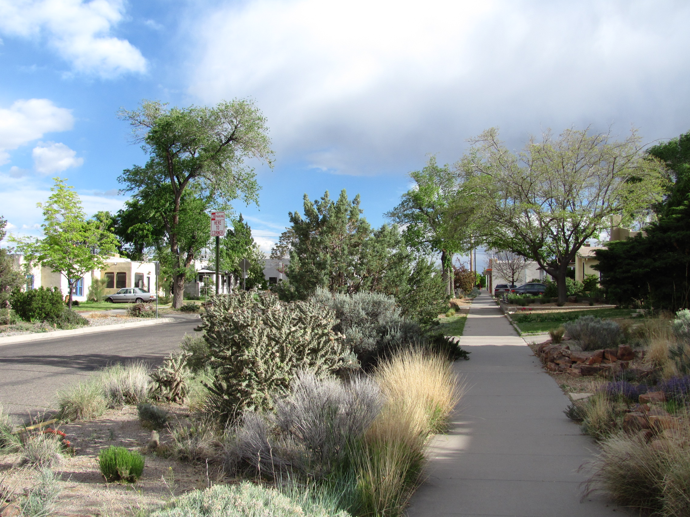 Monte Vista Historic District, Dartmouth Drive, Albuquerque New Mexico